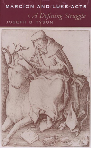 Marsionisme, book cover